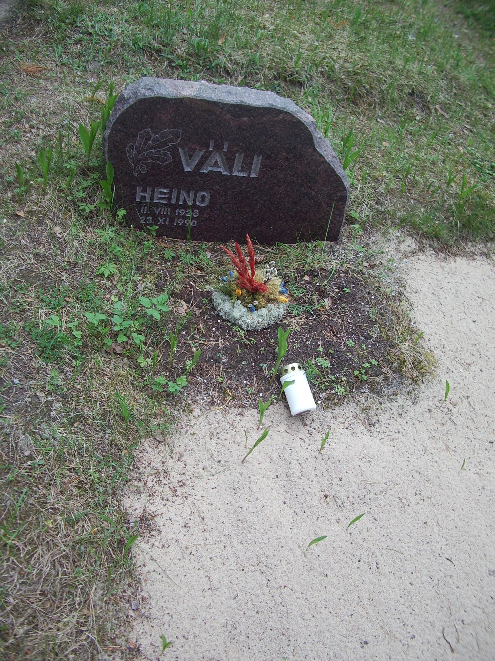 A tomb of Heino Väli